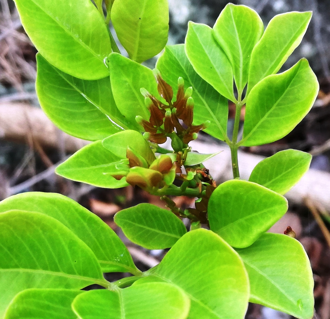 The Mauritian Baobab - Cyphostemma mappia - in habitat in south west Mauritius.